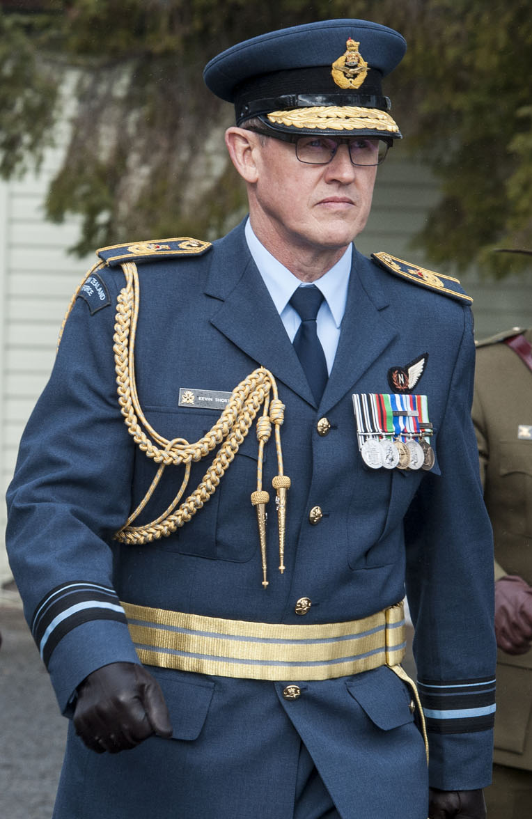 Vice Chief of Defence, Air Vice-Marshal Kevin Short at Waiouru on the 30 July 2014.